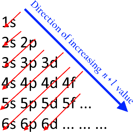 This is a simplified depiction of the "aufbau princple" in chemistry. The states crossed by same red arrow have same n + l value. The direction of the red arrow indicates the order of state filling. This is intended to replace the graphic by goodphy, which uses JPG (Q30524449).